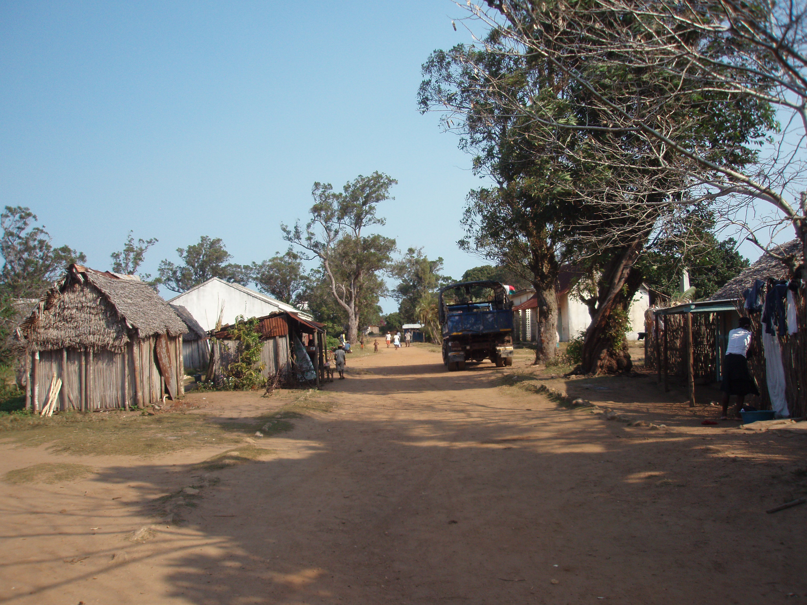 Manantenina, Anosy region, Madagascar, view over the main street (Route National 12)